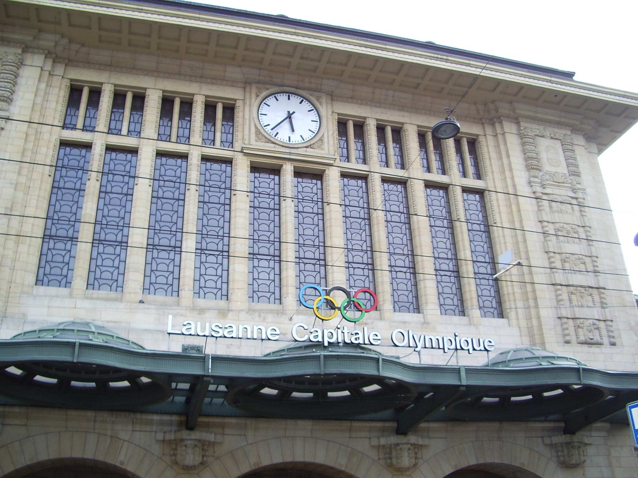 Façade of the "Gare" (Train Station) of Lausanne (Switzerland)